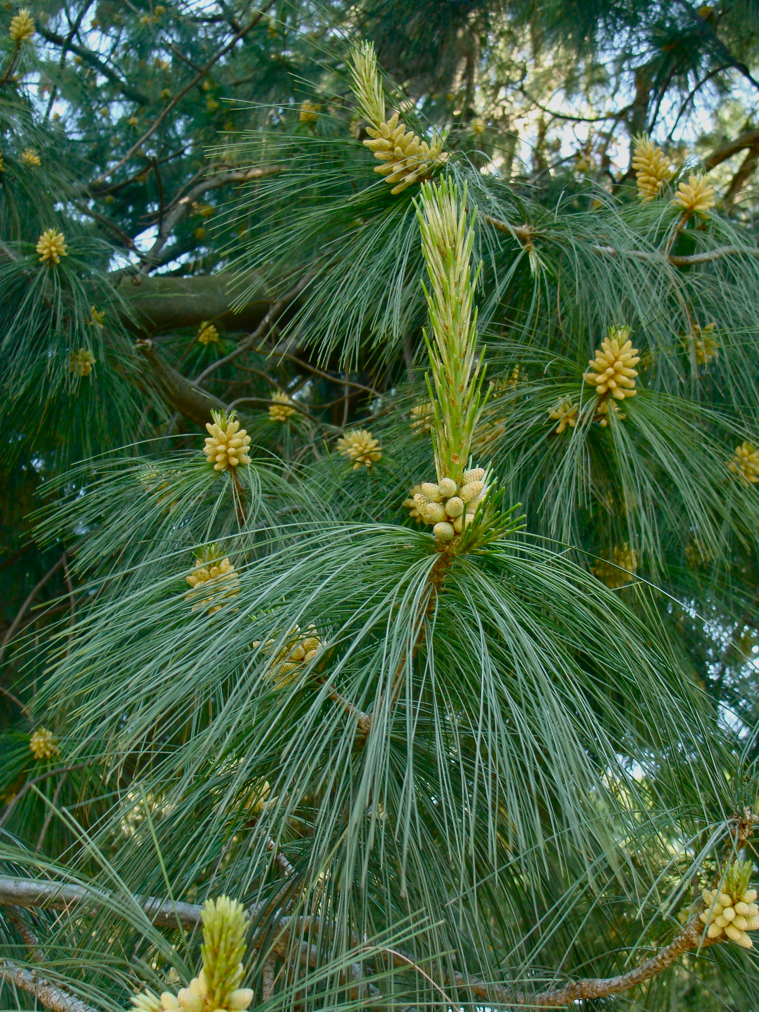 Pinus wallichiana A.B.Jacks., (himalayan) Planted in the Jardin des Plantes de Paris in 1844